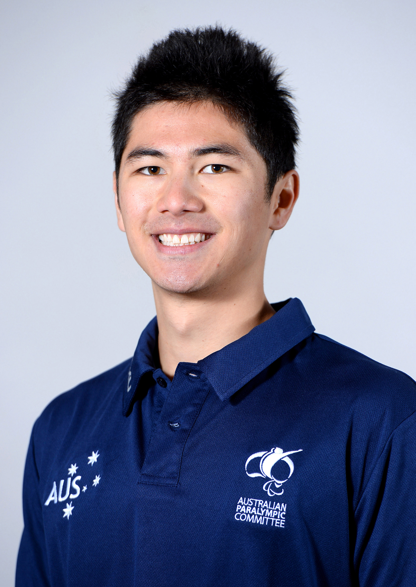 Portrait photograph of Nicholas Hum taken at team processing session for shadow members of 2016 Australian Paralympic team